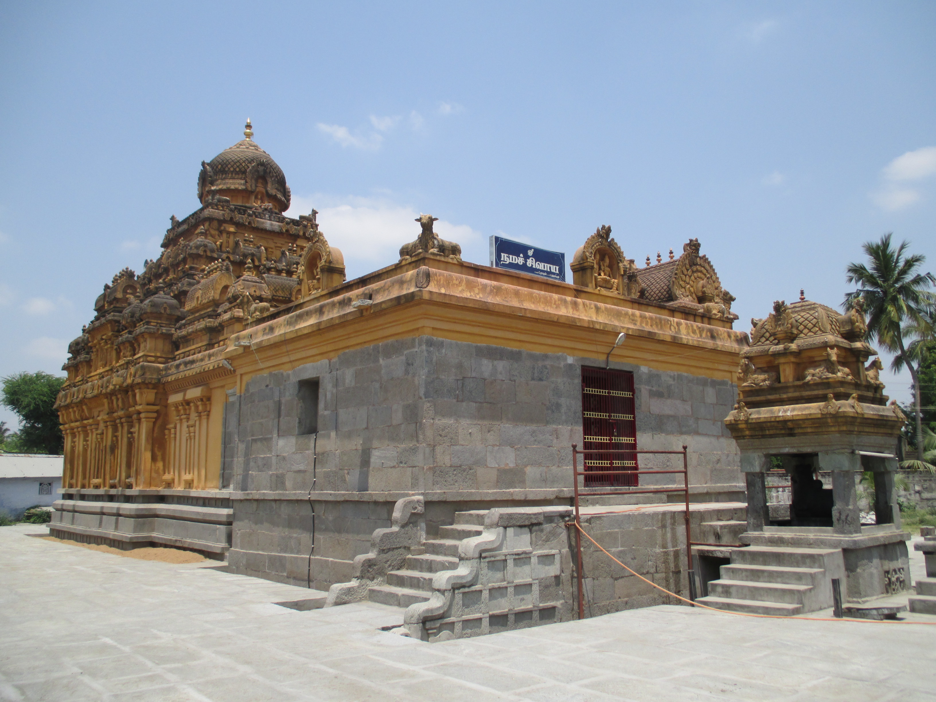 Kailasanthar temple, Uthiramerur